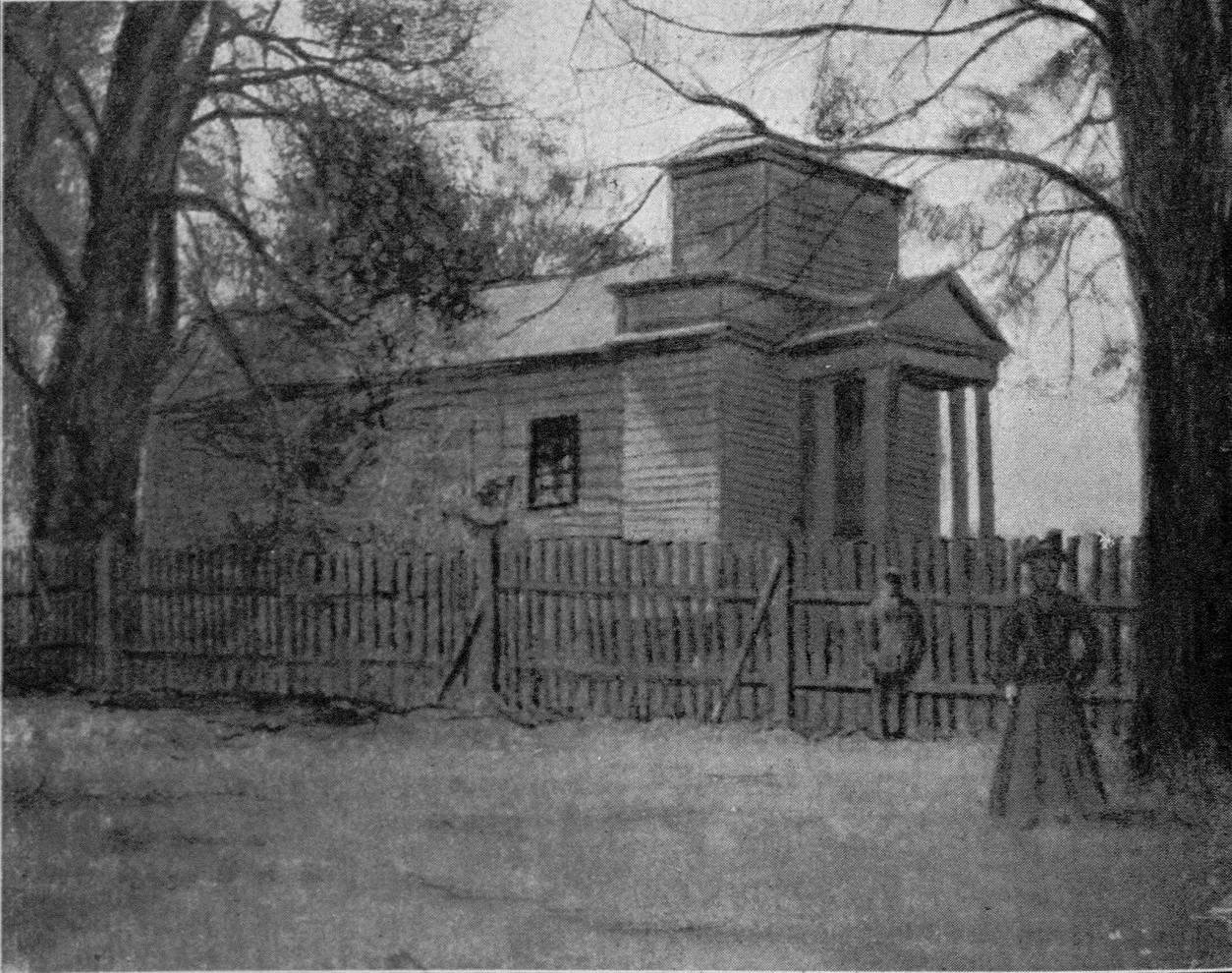 Catholic church and Monastery of Jesuits, Błoń village, Pukhavichy district